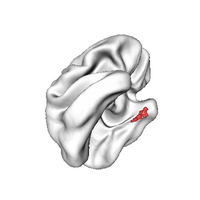 Entorhinal cortex (red) was thinnest in youth with Alzheimer’s-related ApoE4 gene variant. View of left entorhinal cortex from beneath the brain, with front of brain at top. Artist’s rendering. Source: Philip Shaw, M.D., NIMH Child Psychiatry Branch